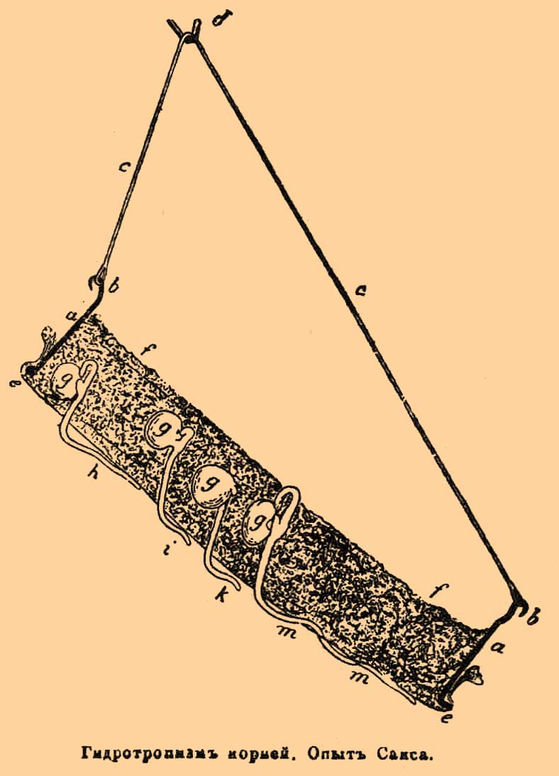 Illustration from Brockhaus and Efron Encyclopedic Dictionary (1890—1907)